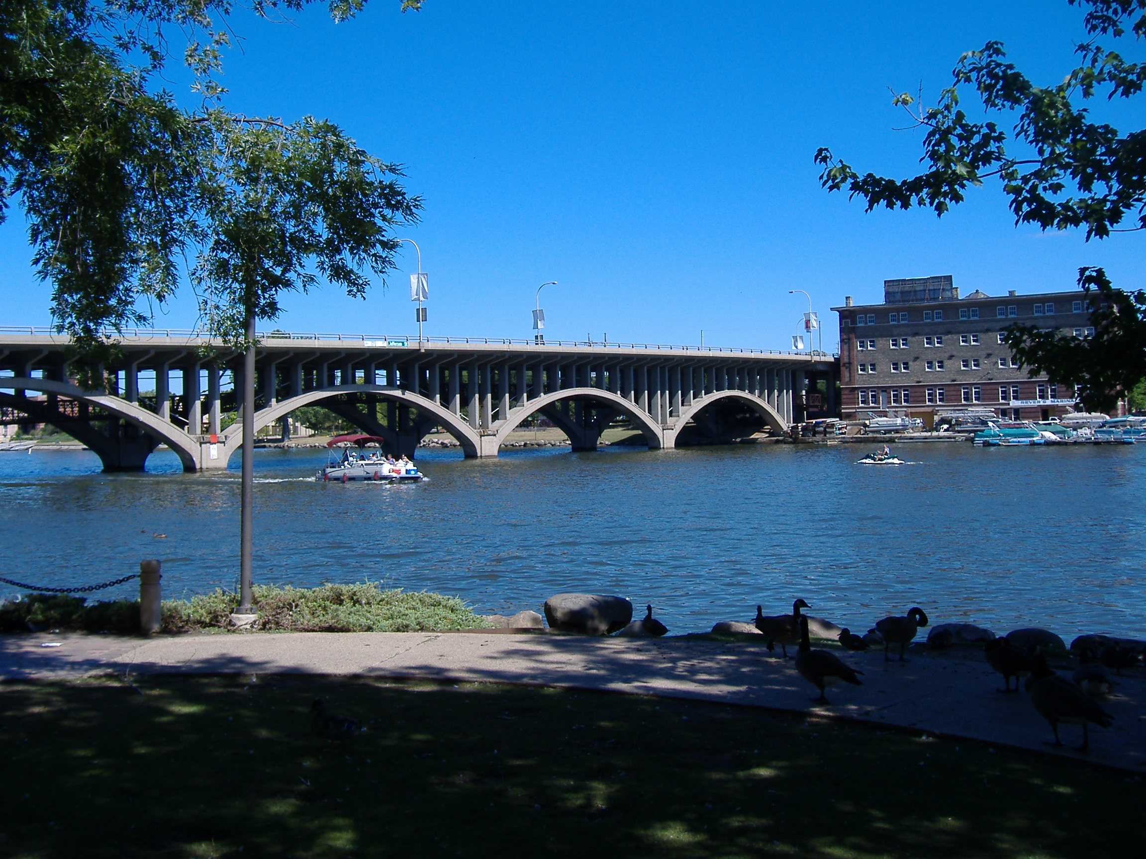 Jefferson Street Bridge in Rockford, Illinois, USA. Taken near Rockford Library.